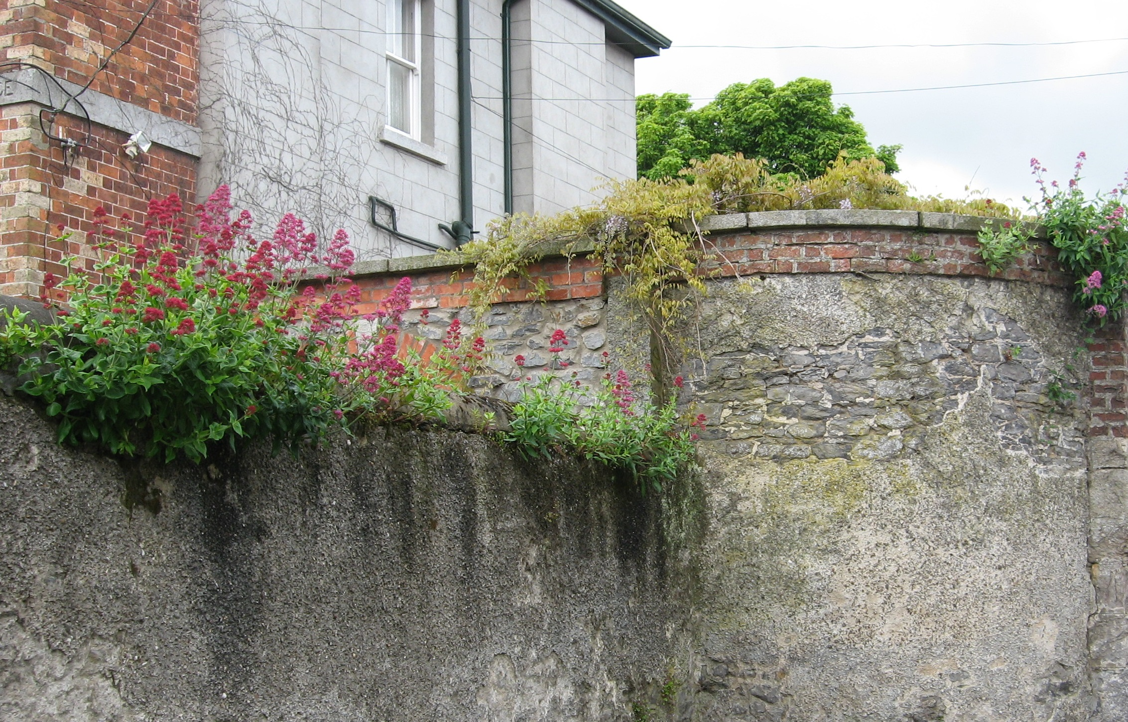 Lime-loving Centranthus ruber (red valerian, Jupiter's beard) growing on an old wall in Kilkenny, Ireland.